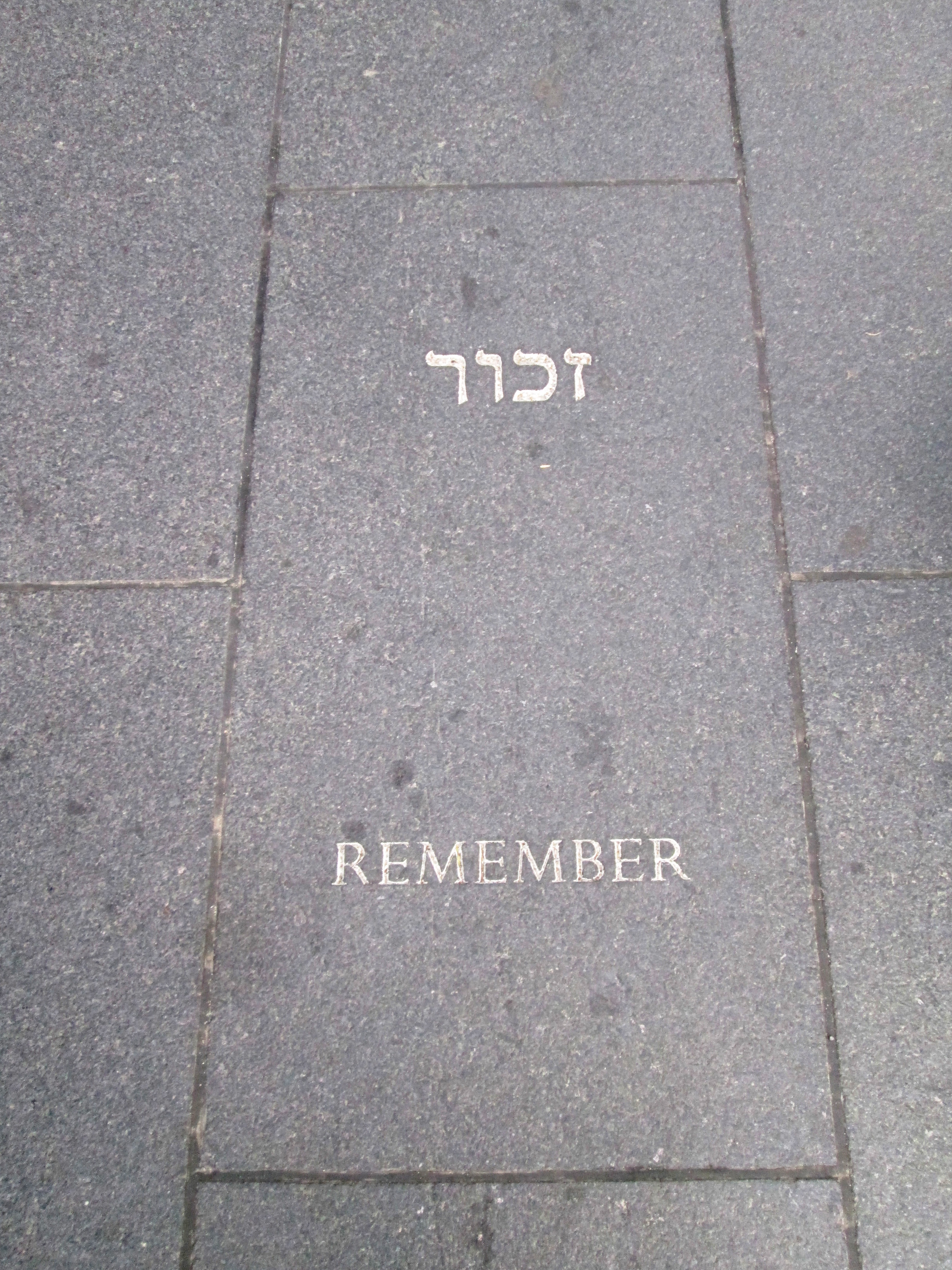 The New England Holocaust Memorial, located in Carmen Park between Congress, Hanover, Union, and North Streets in Boston, Massachusetts, was founded by Stephan Ross, a Holocaust survivor and designed by Stanley Saitowitz. It was erected in 1995. Each tower symbolizes a different major Nazi extermination camp.